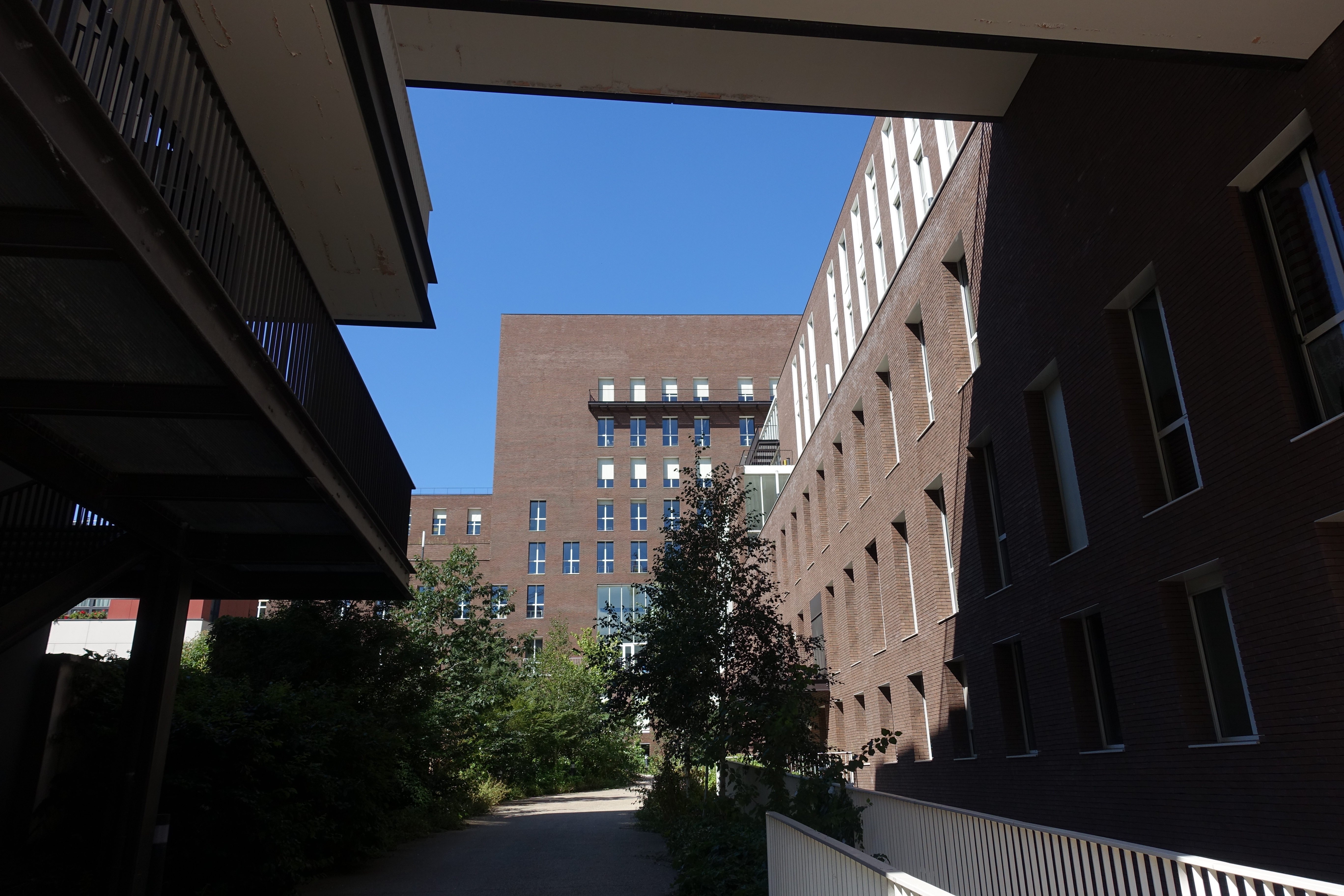 Inalco Bulac @ Paris Rive Gauche @ Paris